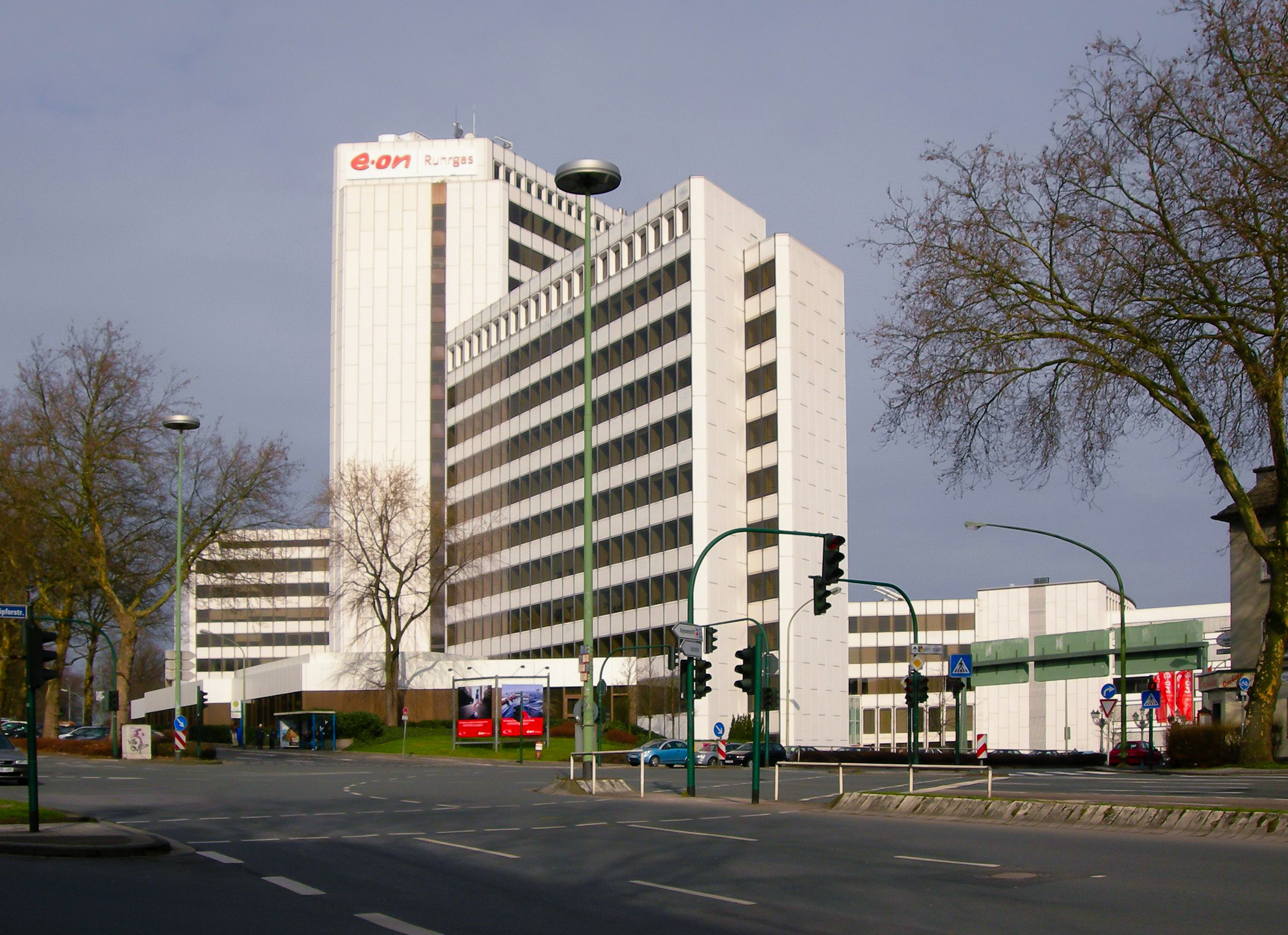 Former heatquarters of E.ON Ruhrgas, address: 45138 Essen, Huttropstraße 60, Germany